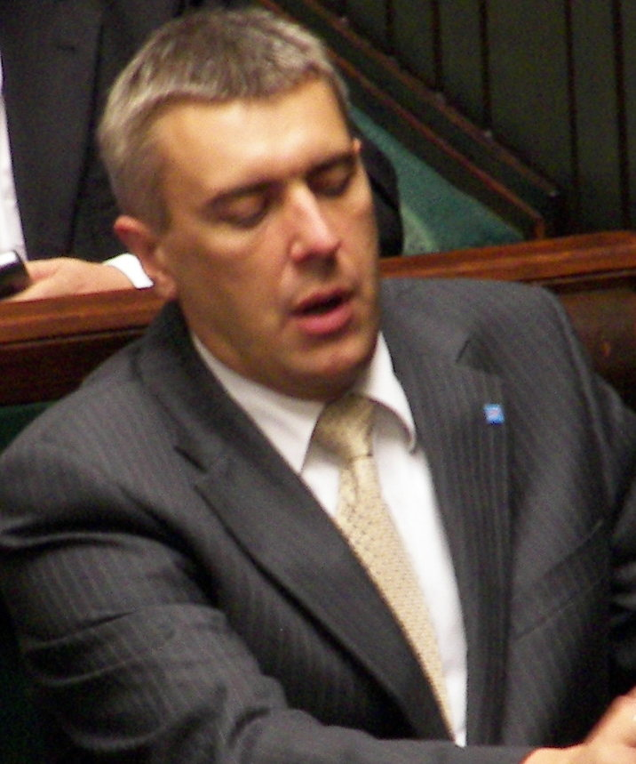 Poland's parliament called early elections (Fri Sep 7, 2007)